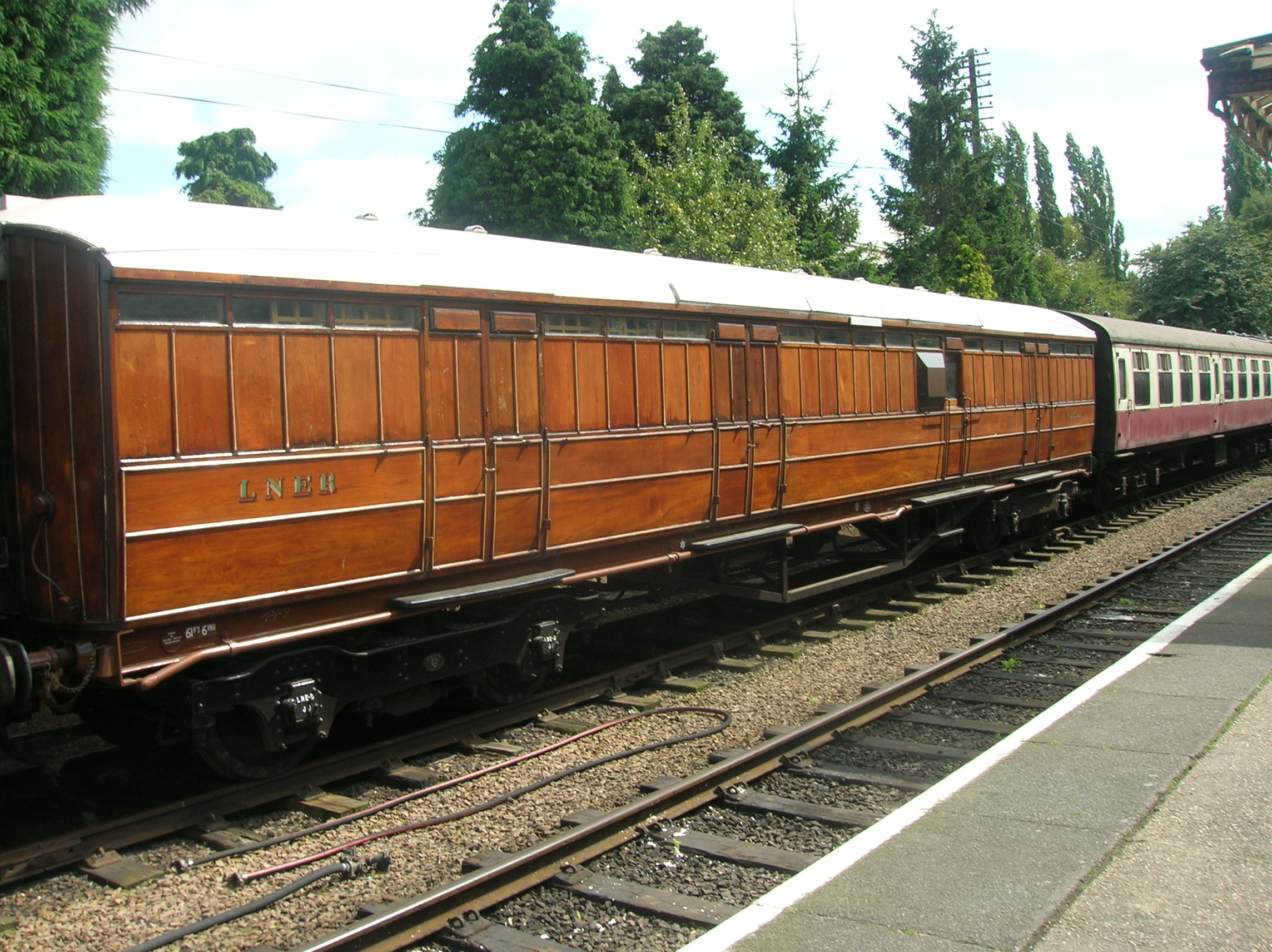 This is a new version of an LNER Teak Pigeon Van coach for the page List of Great Central Railway locomotives.